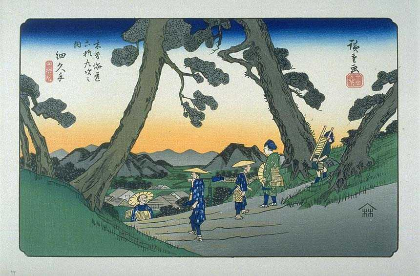 Hosokute on the Kisokaido, ukiyo-e prints by Hiroshige